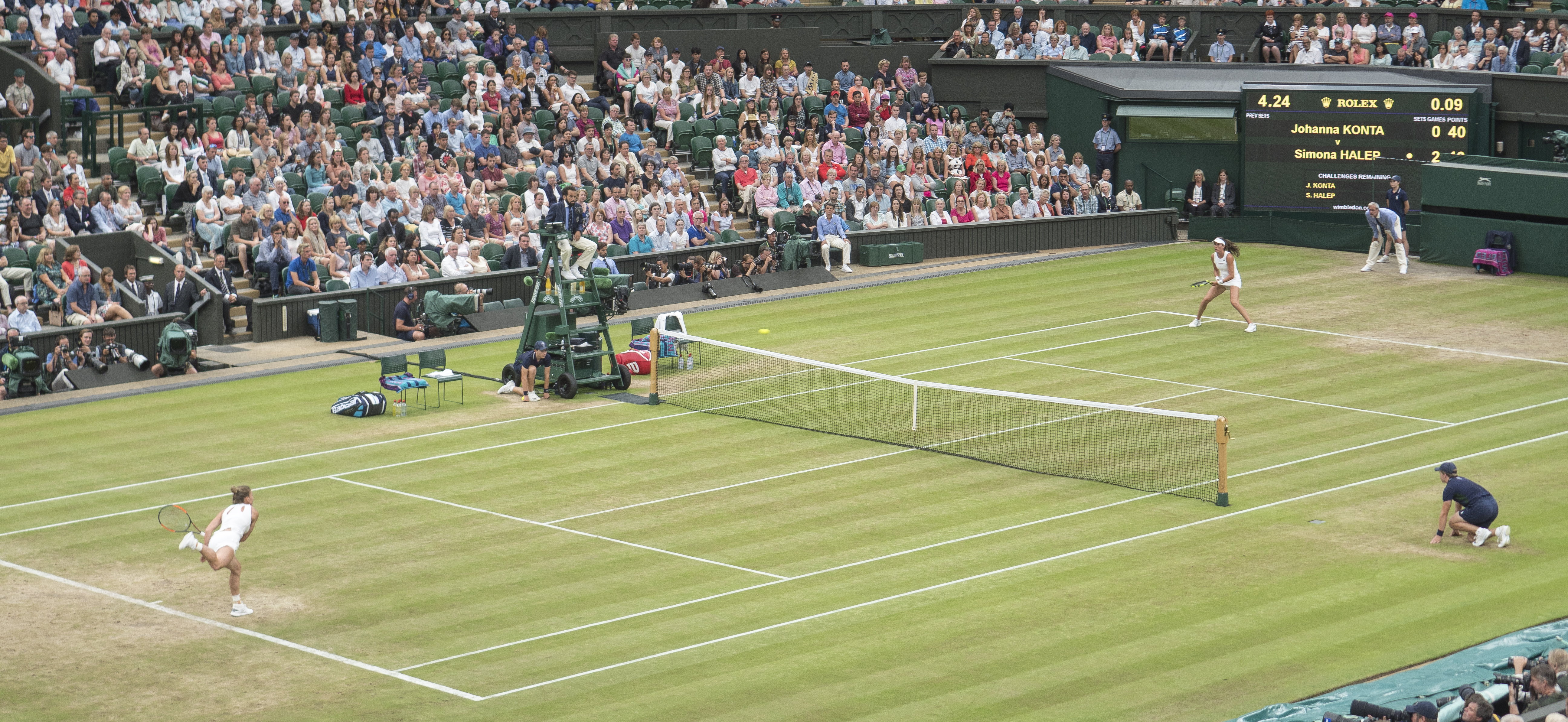 Wimbledon 2017